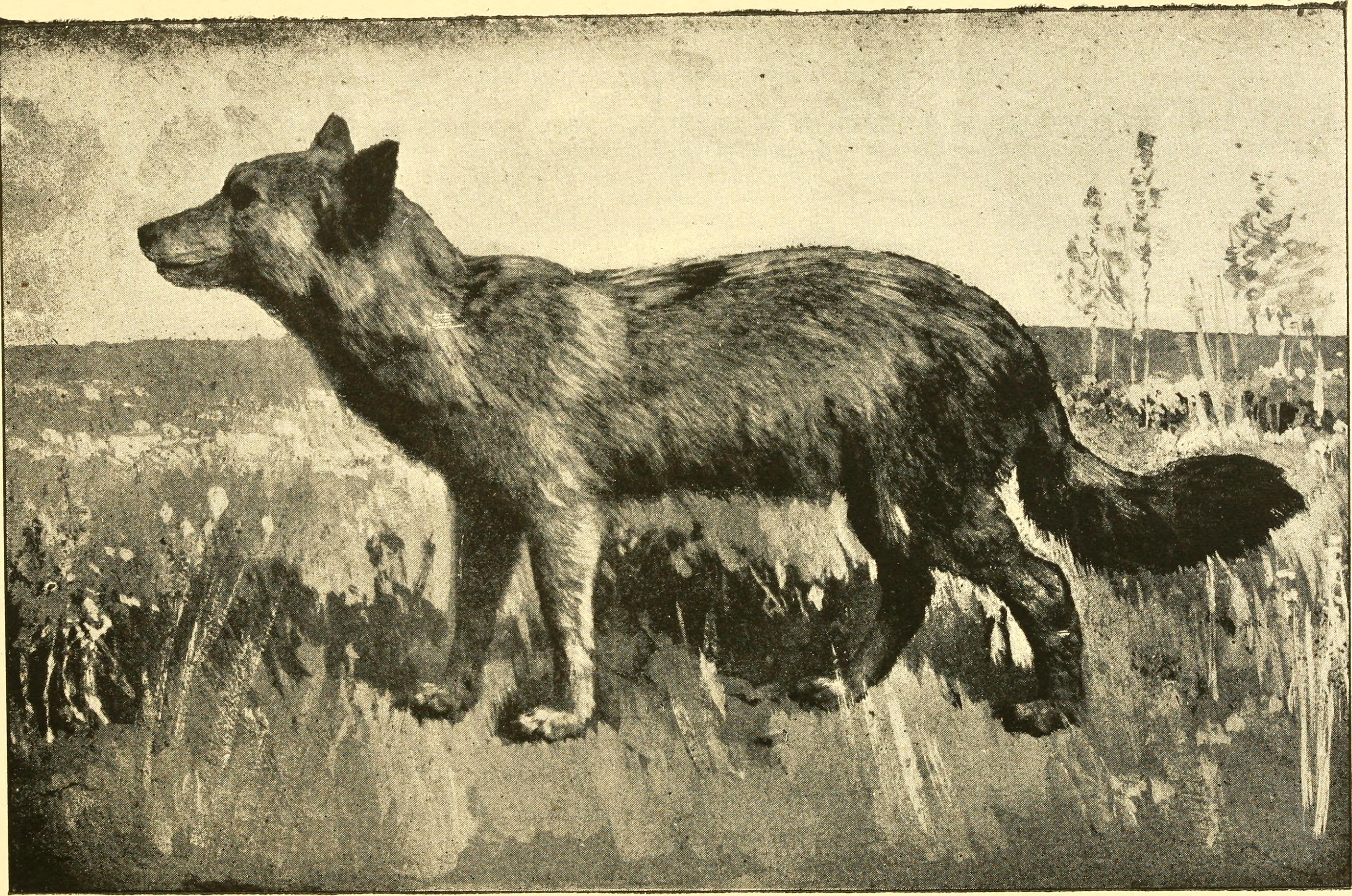 Canis lupus griseo-albus Title: Commissioners' report Year: 1892 (1890s) Authors: Ontario. Game and fish commission Wright, Robert Ramsay, 1852-1933 Subjects: Game and game-birds Game protection Fisheries Fishes Publisher: Toronto, Printed by Warwick & sons Text Appearing Before Image: P3 PQ Text Appearing After Image: ^ a-. H 325 CANIS LUPUS GRISEO-ALBUS, (Lixnk) (Sabine). THE WOLF. Sjyecific Character.—The three first teeth in the upper jaw and the four inthe lower jaw, are trenchant but small, and are called false molars. The great car-nivorous tooth is bicuspid with a smaller tubercle on the inner side ; that belowhas the posterior lobe altogether tubercular. There are two tuberculous teethbehind each of the o^reat carnivorous teeth. The muzzle is elongate, tongue soft,e;irs erect, but in the domestic varieties sometimes fcriduloics. The forefeet arepentadactylous or live-toed, the hind feet are tetradactylous or four-toed. Theteats are both inguinal and ventral. Habitat.—North America, common in Xorthern Ontirio. Average Size.—Equal to a large setter dog. Average Weight.—50 to 75 pounds. Average Height.—At shoulder, 26 inches. Average Levgth.—From tip of nose to point of tail, 5 feet; nose to tail, 48inches ; tail, 12 inches. Value of Fur.—Per skin, average, 50c. to $2. The wolf i